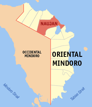 Map of Oriental Mindoro showing the location of Naujan